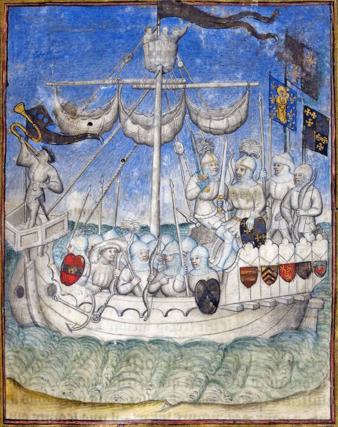 Expedition to the Canary Islands, miniature, "Le Canarien", British Library, Egerton MS 2709, fol. 2